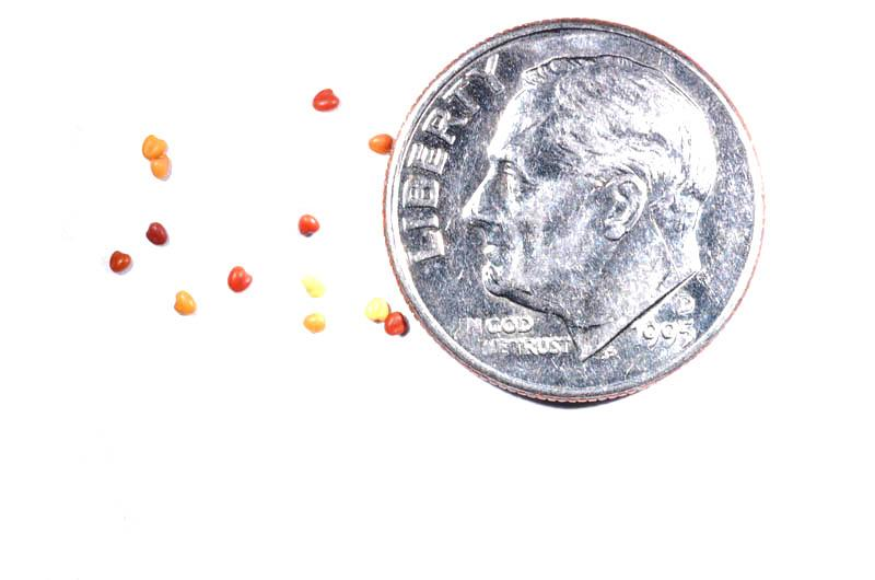 Seeds of Trifolium repens (white clover) next to a U.S. dime for scale.